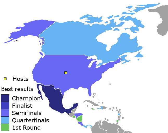 Map of Participating Countries at 2009 Concacaf Gold Cup